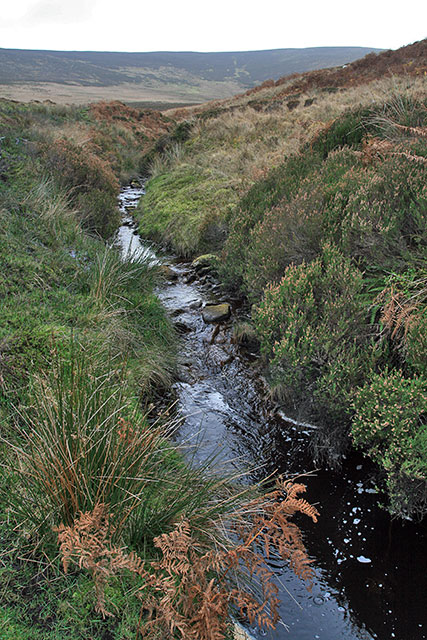 The Blaber River A slightly grandiose name for a small and short stream, which flows into Glen Helen.